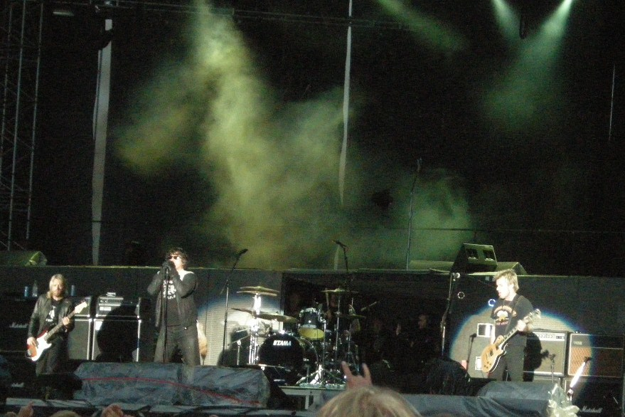 The Cult at Sonisphere Sweden 2009.jpg